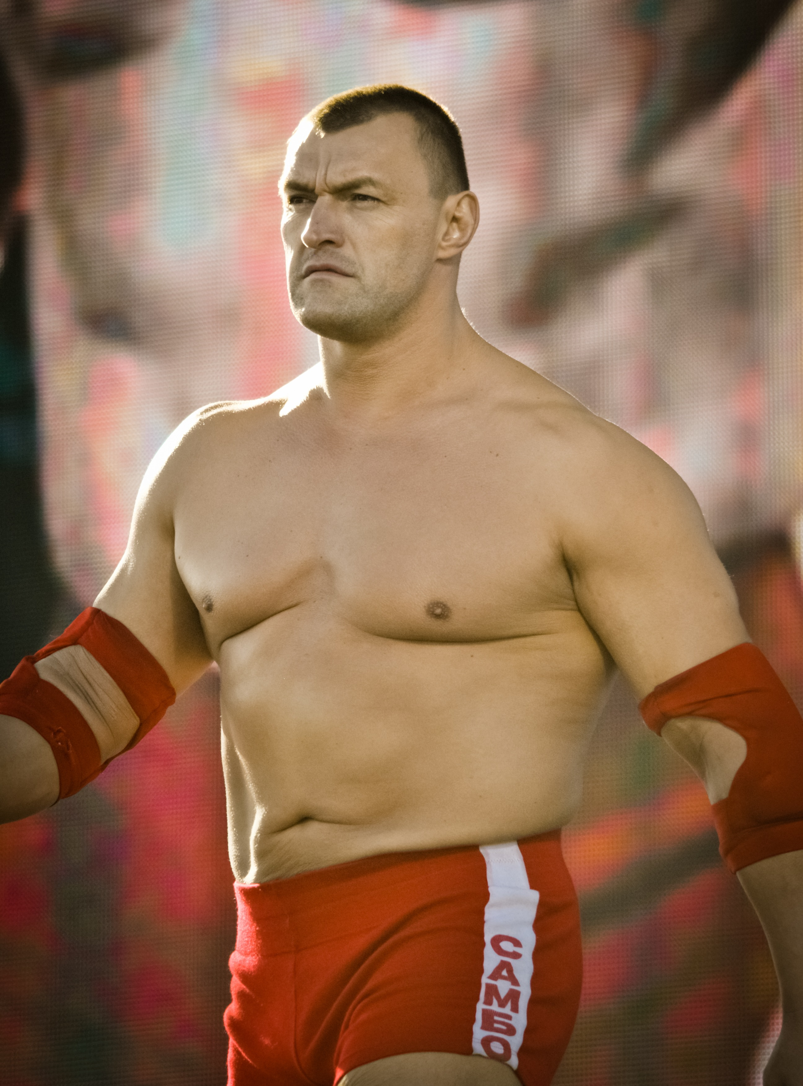 Vladimir Kozlov at WWE's Tribute to the Troops show in Fort Hood, Texas, on December 11, 2010.